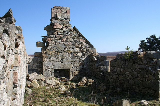 The hearth remains in the Glenmore derelict cottage.